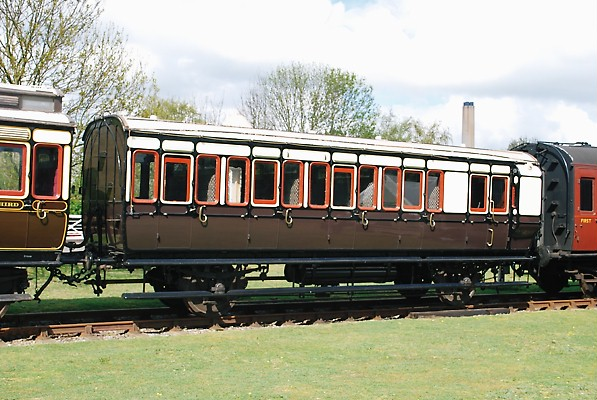 GWR Dean 31' 4-wheeled Brake Third No.416, Diagram T49, Lot 582, built at Swindon 1891. At Didcot Shed, 05/10.